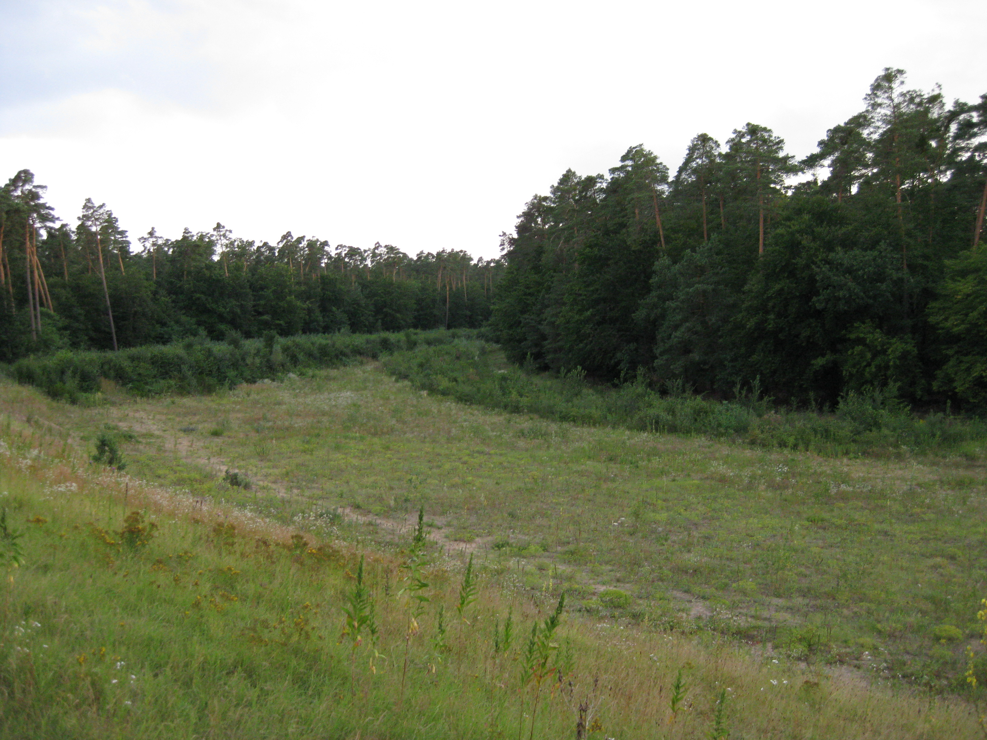 Ostkurve of Hockenheimring in 2008.